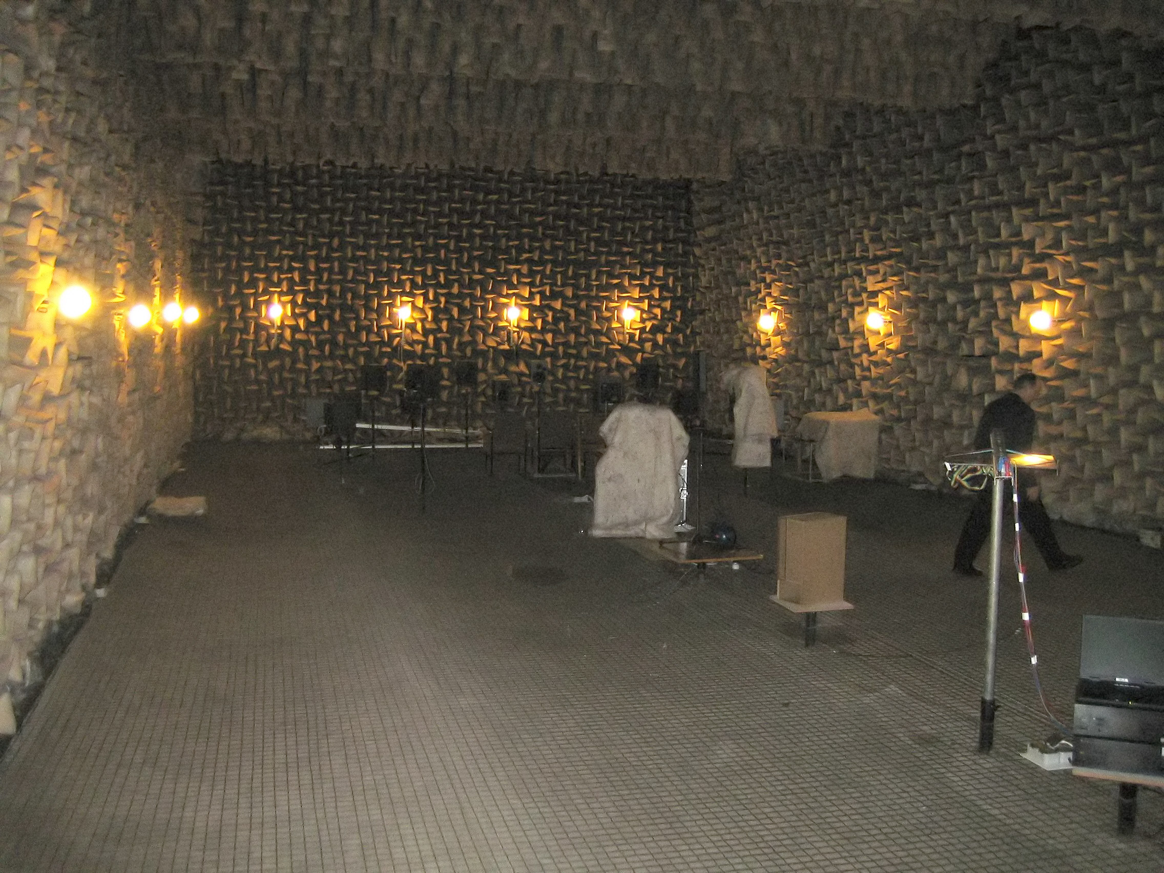 Anechoic room (free field room) of the Dresden University of Technology absorber material on all walls and the ground (steel mesh for walking visible) 1000 m³ free volume, 2000 m³ complete volume in the Barkhausen building (Faculty of Electrical Engineering and Information Technology)